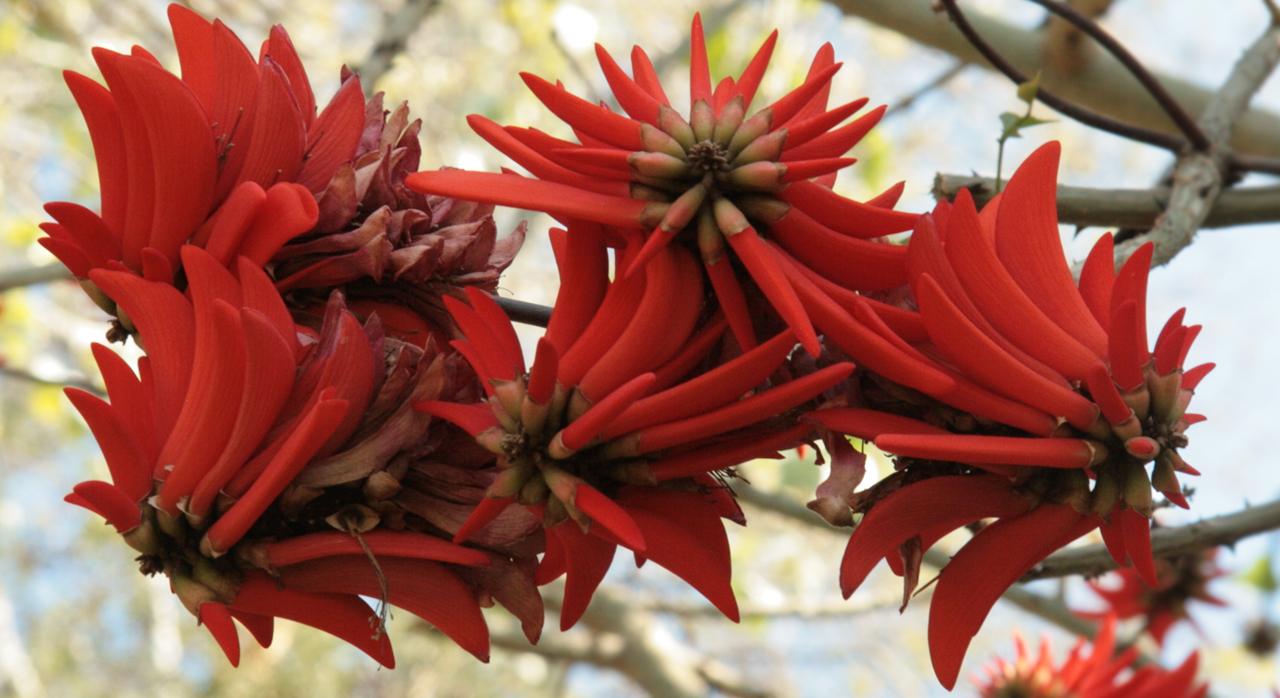 trees are in bloom, Cyprus